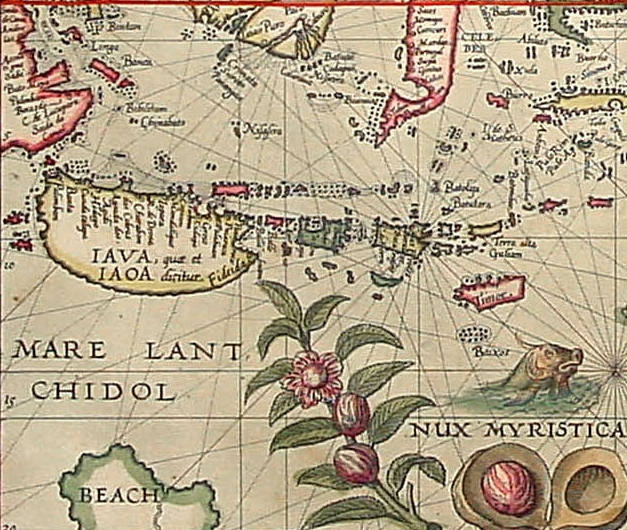 detail map Insullae Moluc, first print 1592, this print 1617